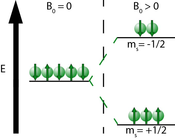 Depiction of the effect on spin in the absence and presence of an applied magnetic field.